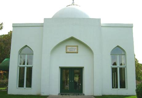 Mazar (mausoleum) of Shaikh M. R. Bawa Muhaiyaddeen at 99 Fellowship Drive, Coatesville, Pennsylvania